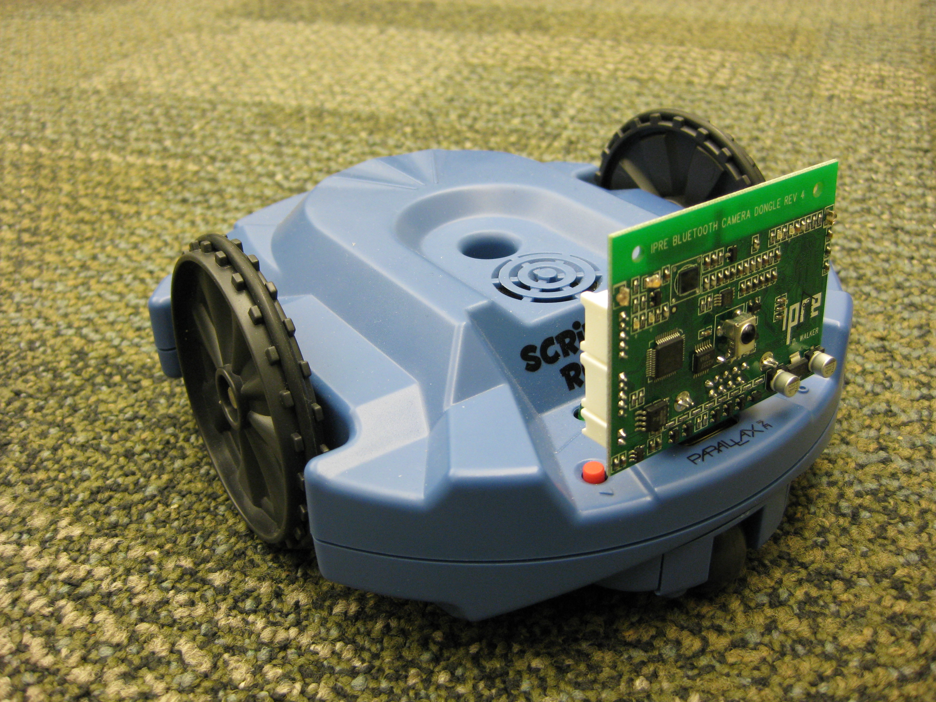 The Scribbler robot, taken at the Institute for Personal Robots in Education, Georgia Institute of Technology. The addon board mounted in front provides Bluetooth and a low resolution camera.